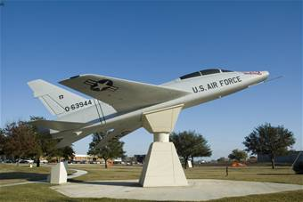 Weightless 2, a static display on Brooks City-Base commemorating the research done through the Aerospace Medical Division with astronaut candidates.